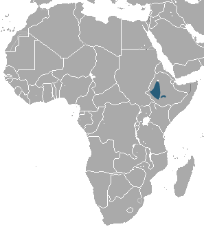 Thalia's Shrew (Crocidura thalia) range